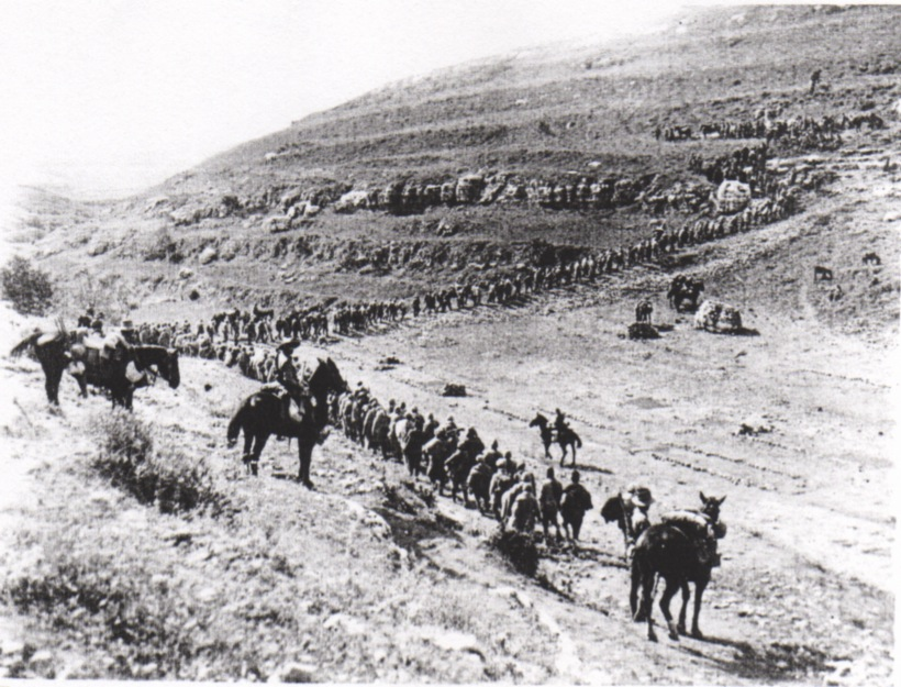 Ottoman prisoners on their way from Es Salt to Jericho during World War I